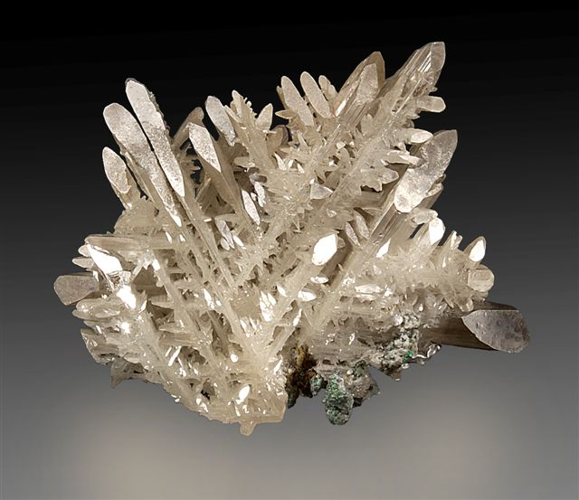 Cerussite Locality: Tsumeb Mine (Tsumcorp Mine), Tsumeb, Otjikoto (Oshikoto) Region, Namibia (Locality at ) Fine example of reticulated growth due to cyclic twinning on m[110] (sixlings). The mineral is orthorhombic with the c axis forming the "hub" while the a axes form the "spokes". 12 x 11 x 4 cm This Photo was Photo of the Day - 24th Feb 2006